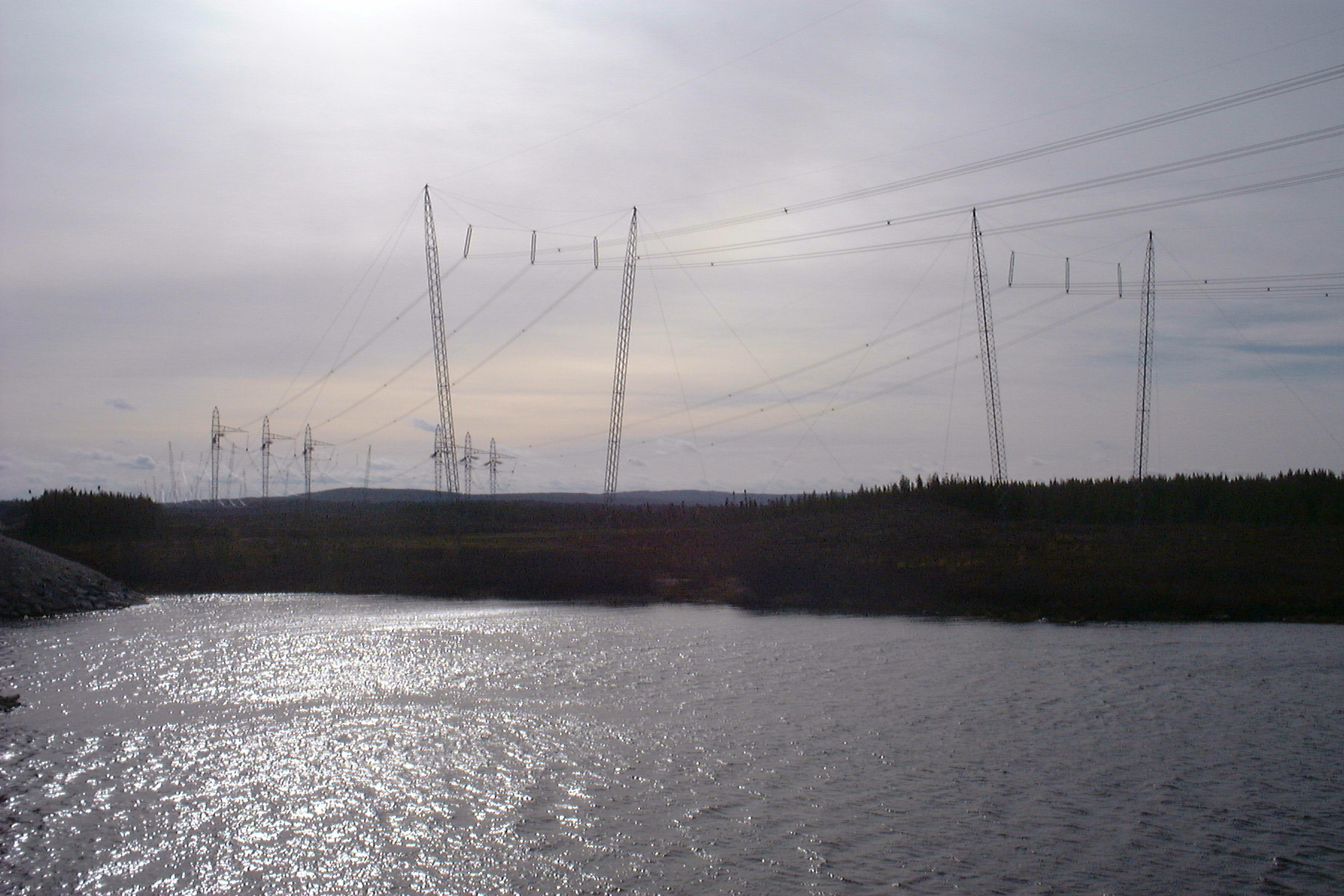 Cross rope suspension pylons used on some parts of Hydro-Québec TransÉnergie's 735 kV lines between the James Bay hydroelectric complex and Montreal.